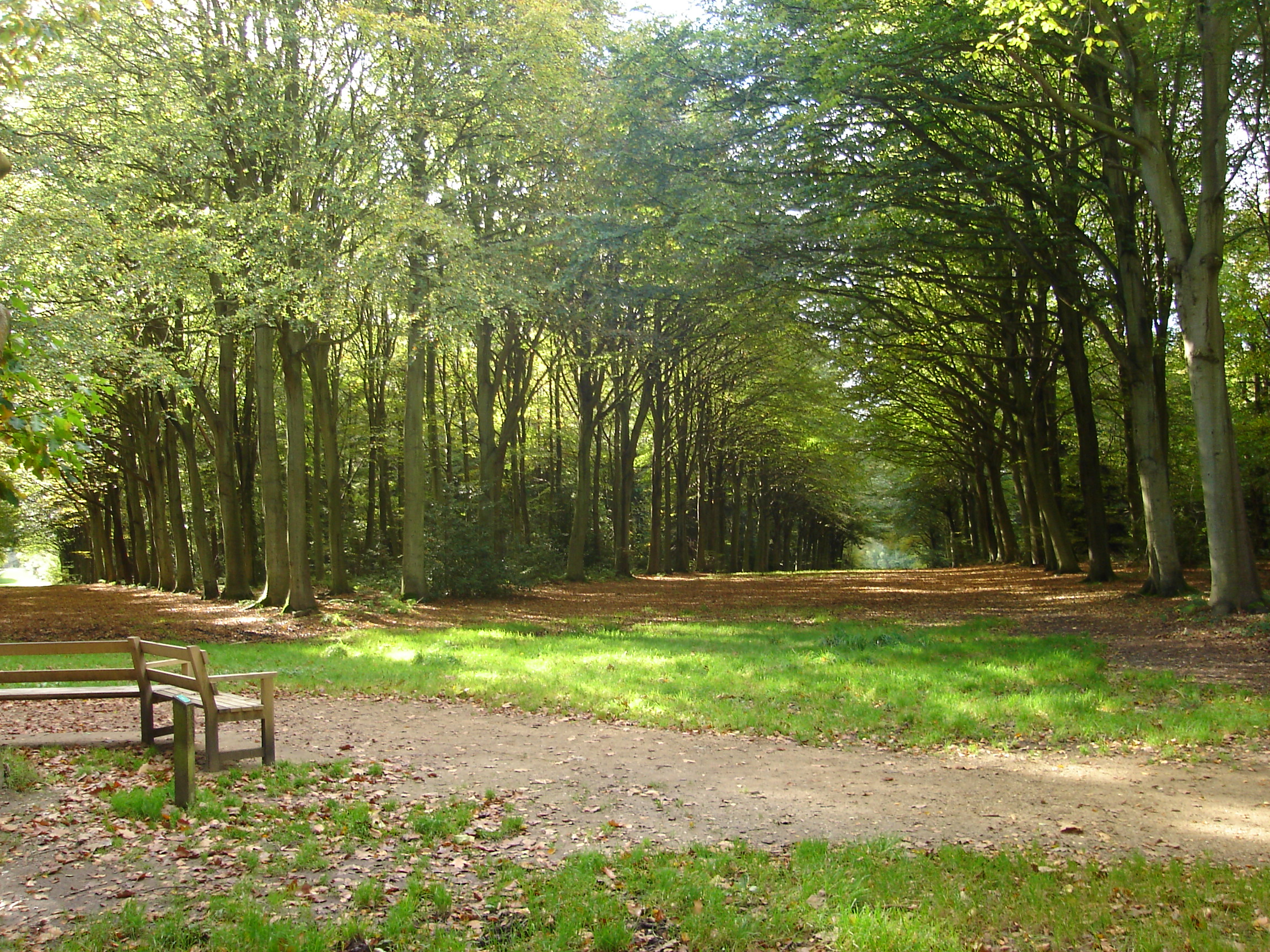 The Victory V plantation was planted by the late squire Robert Wyndham Kett-Cremer to commemorate VE Day and the death of his brother, Richard, who was killed in World War II while serving in Crete with the RAF in 1940.